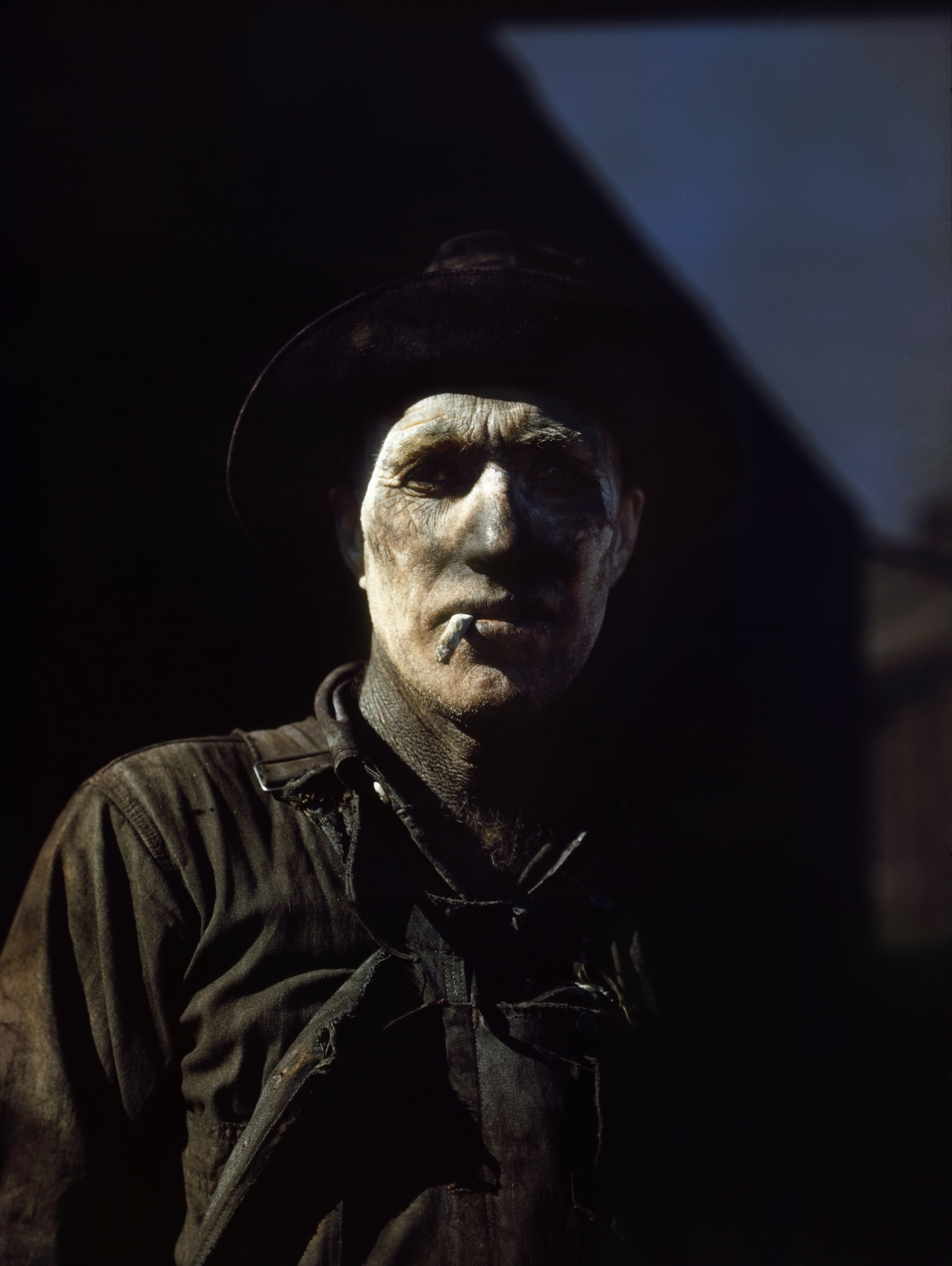 Worker at a carbon black plant, Sunray, Texas, United States